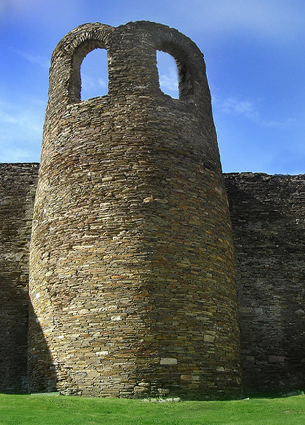 A part of the Roman Wall of Lugo, Galicia.